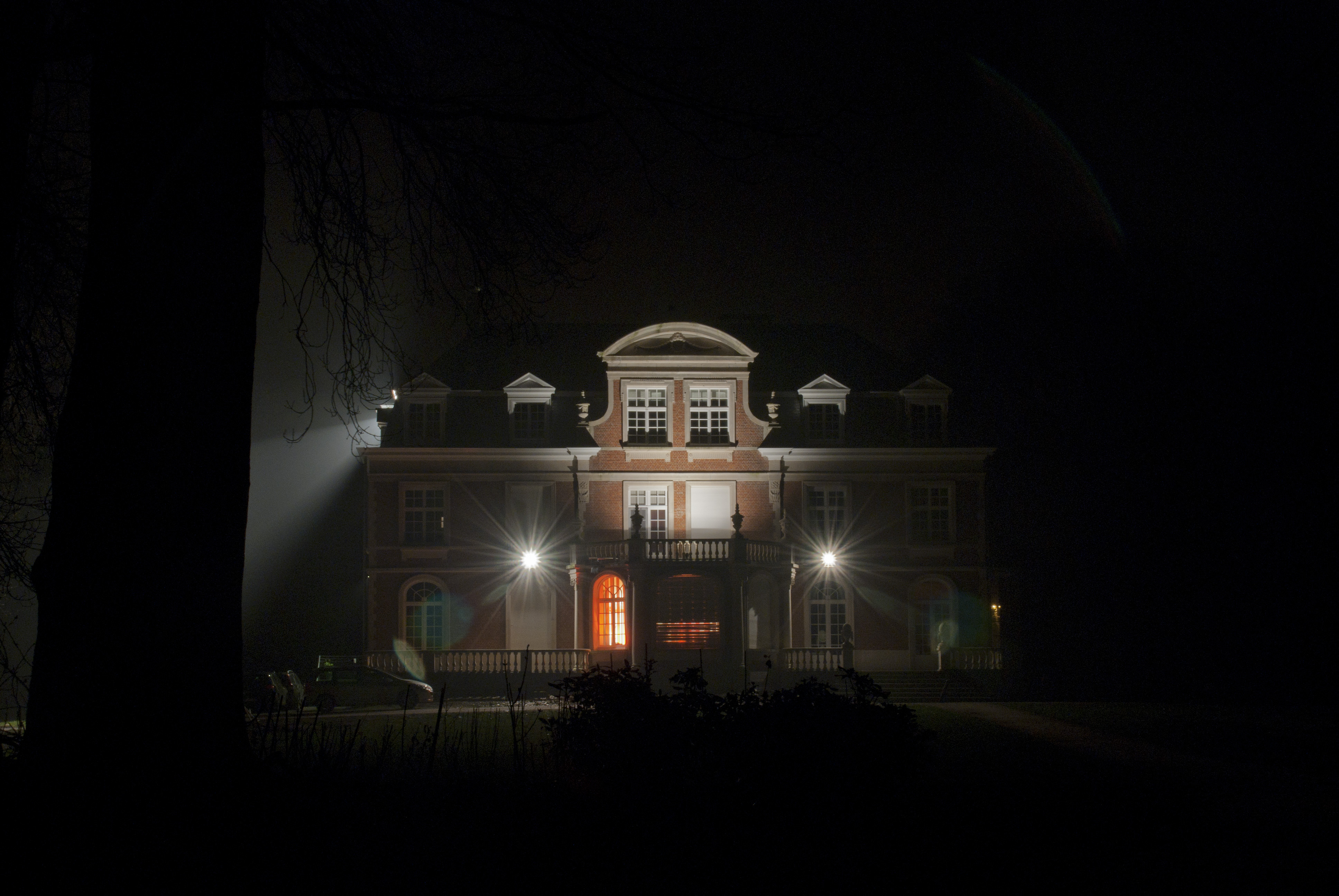 Wallemote Castle(Izegem) at night.